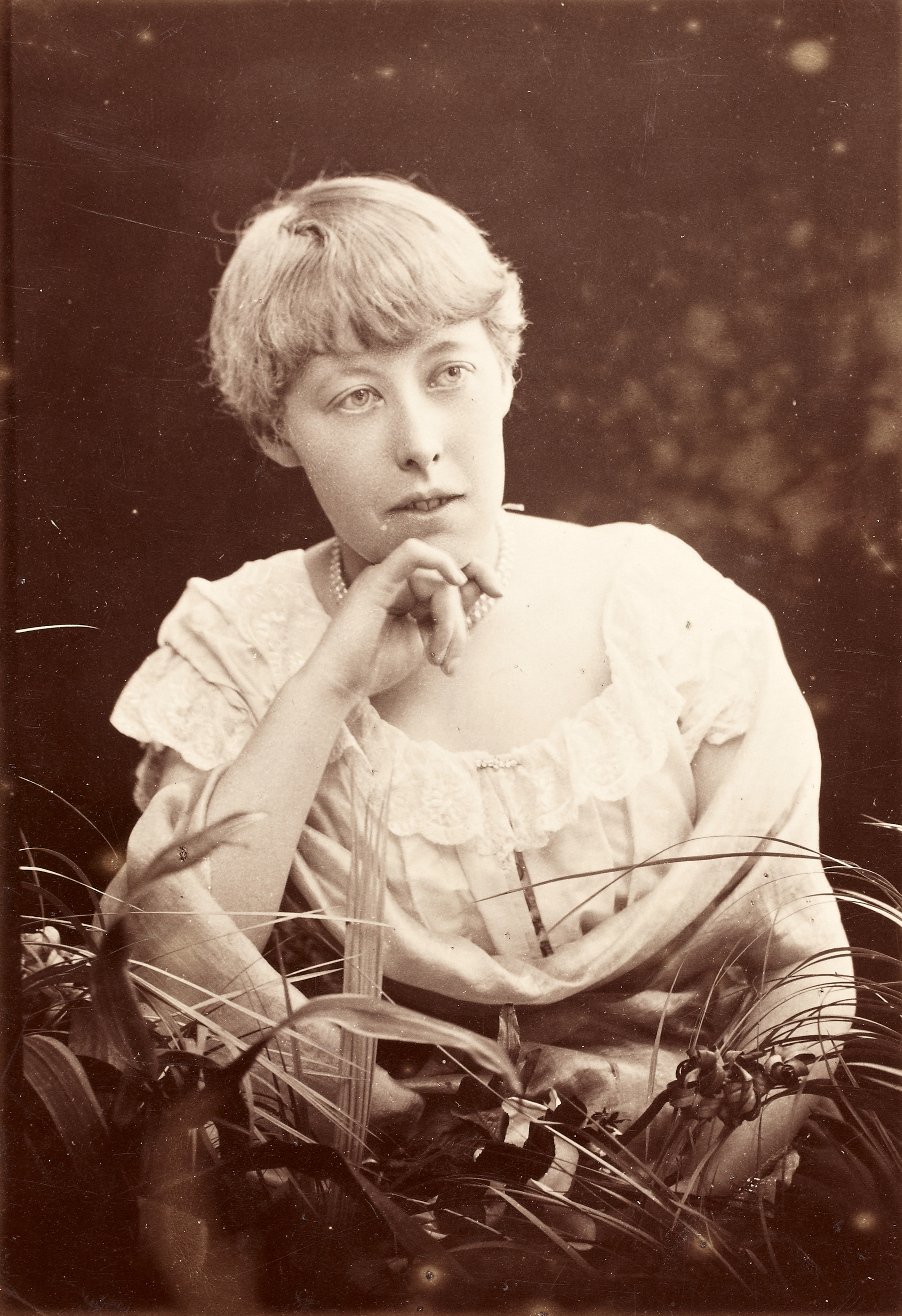 Katharine Tynan, later Katharine Tynan Hickson